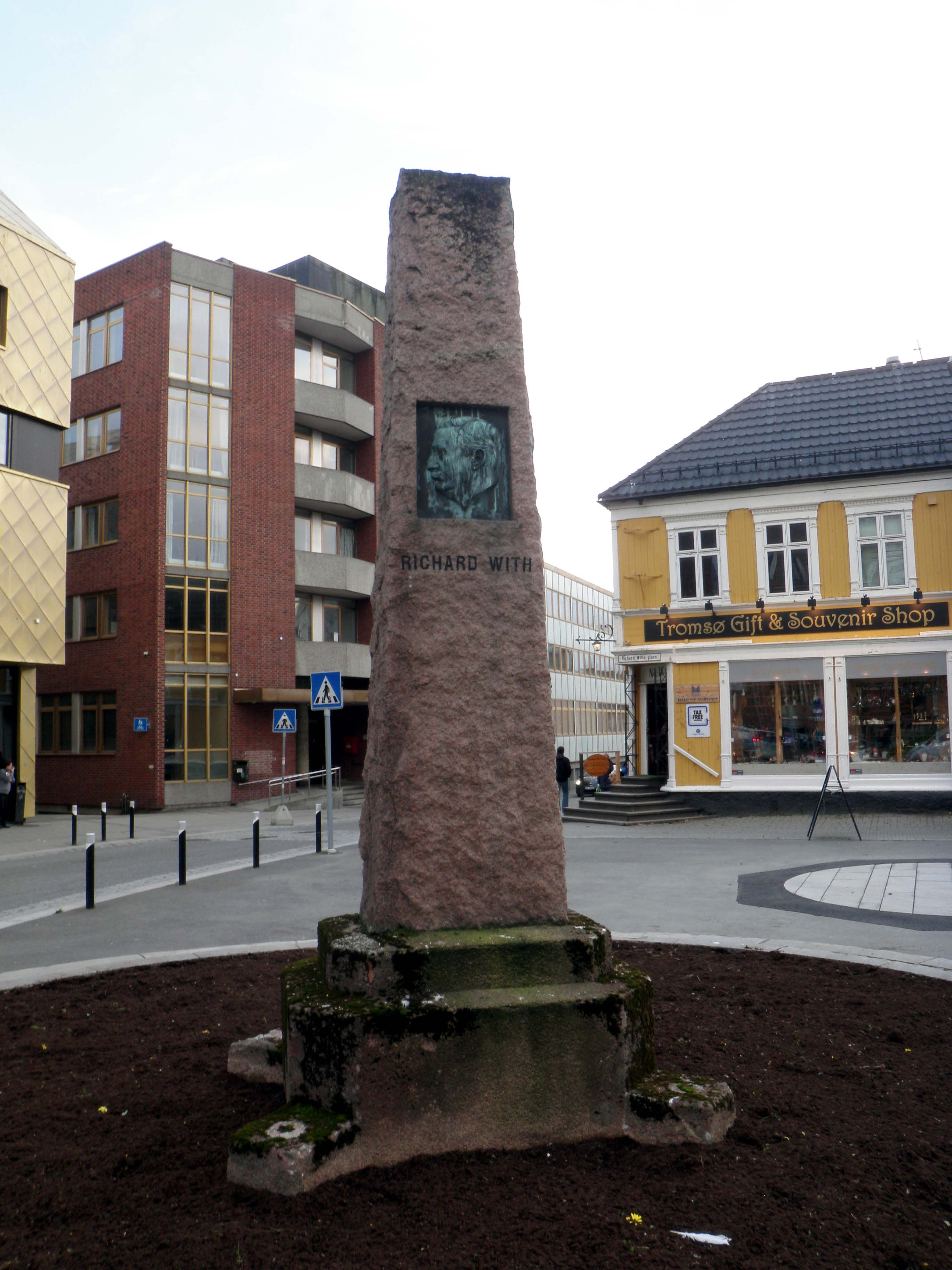 Memorial stone in memory of Norwegian businessman Richard With, in Tromsø, Norway. The memorial stone, raised in 1931, is located at the square Richard Withs plass. In the background can be seen, from left to right: Quality Hotel Saga; the city's former post office and Tromsø Gift & Souvenir Shop.